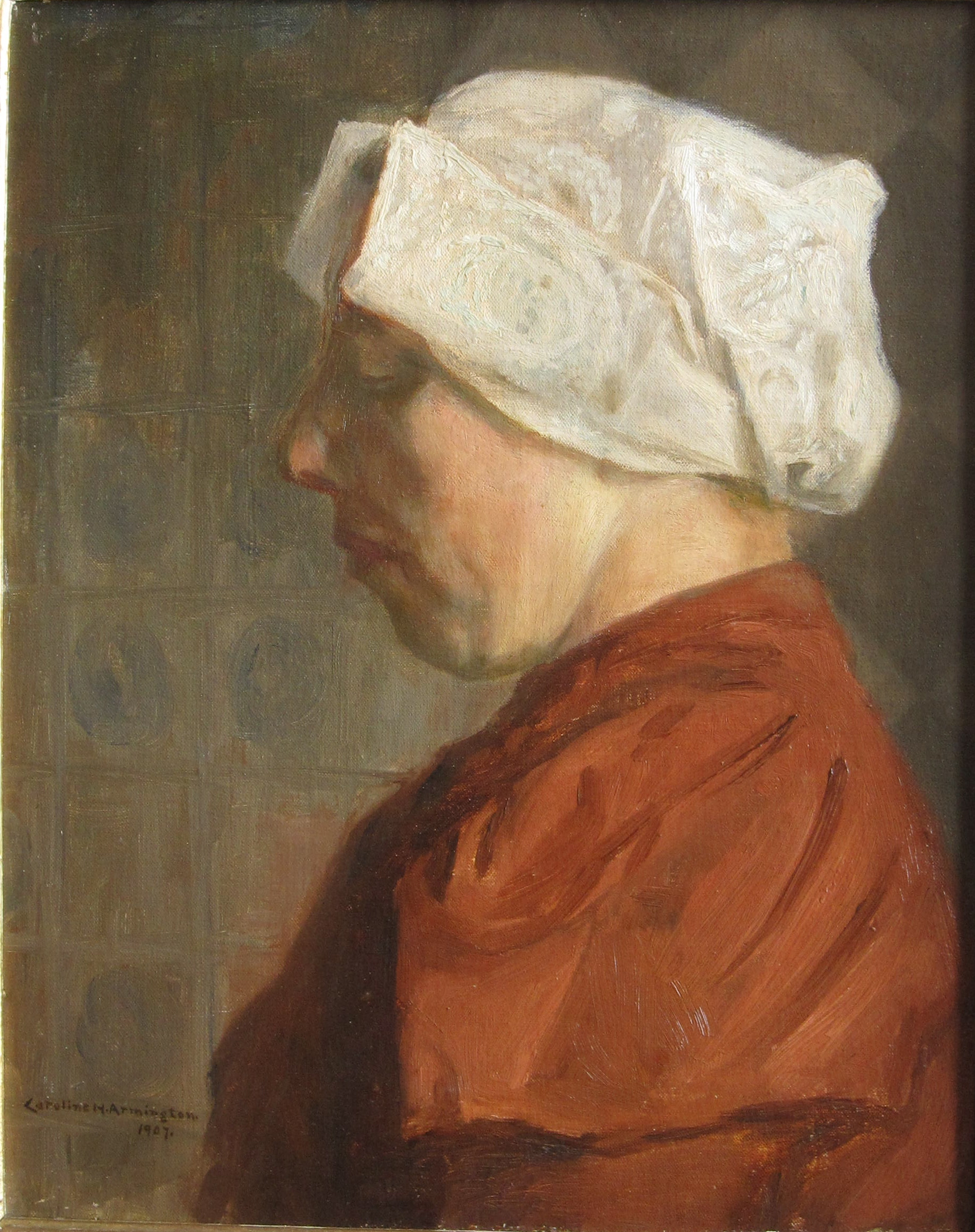 Paysanne Hollandaise (The Dutch Peasant), 1907, by Caroline H. Armington (1875-1939), oil on canvas on board, 16" x 13". Exhibited at the 1908 Salon des Artistes Francais, Grand Palais, Paris (catalogue #42).